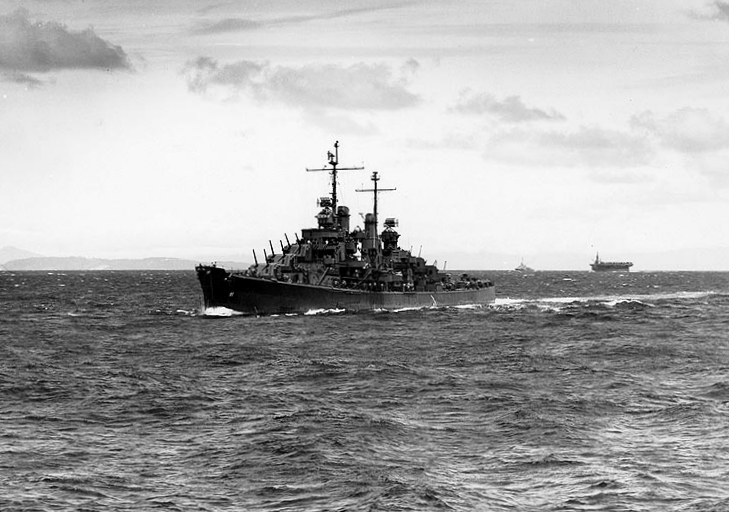 The U.S. Navy light cruiser USS Oakland (CL-95) underway in Leyte Gulf, Philippines, in July 1945.